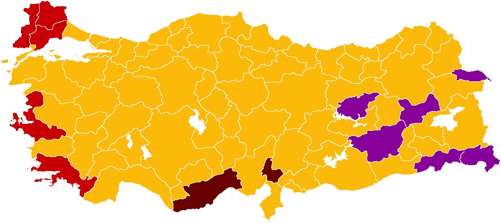 Map showing the voting intentions of the 81 provincial capitals of Turkey by party in the 2007 general elections. Original (blank) file by Atilim Gunes Baydin is here